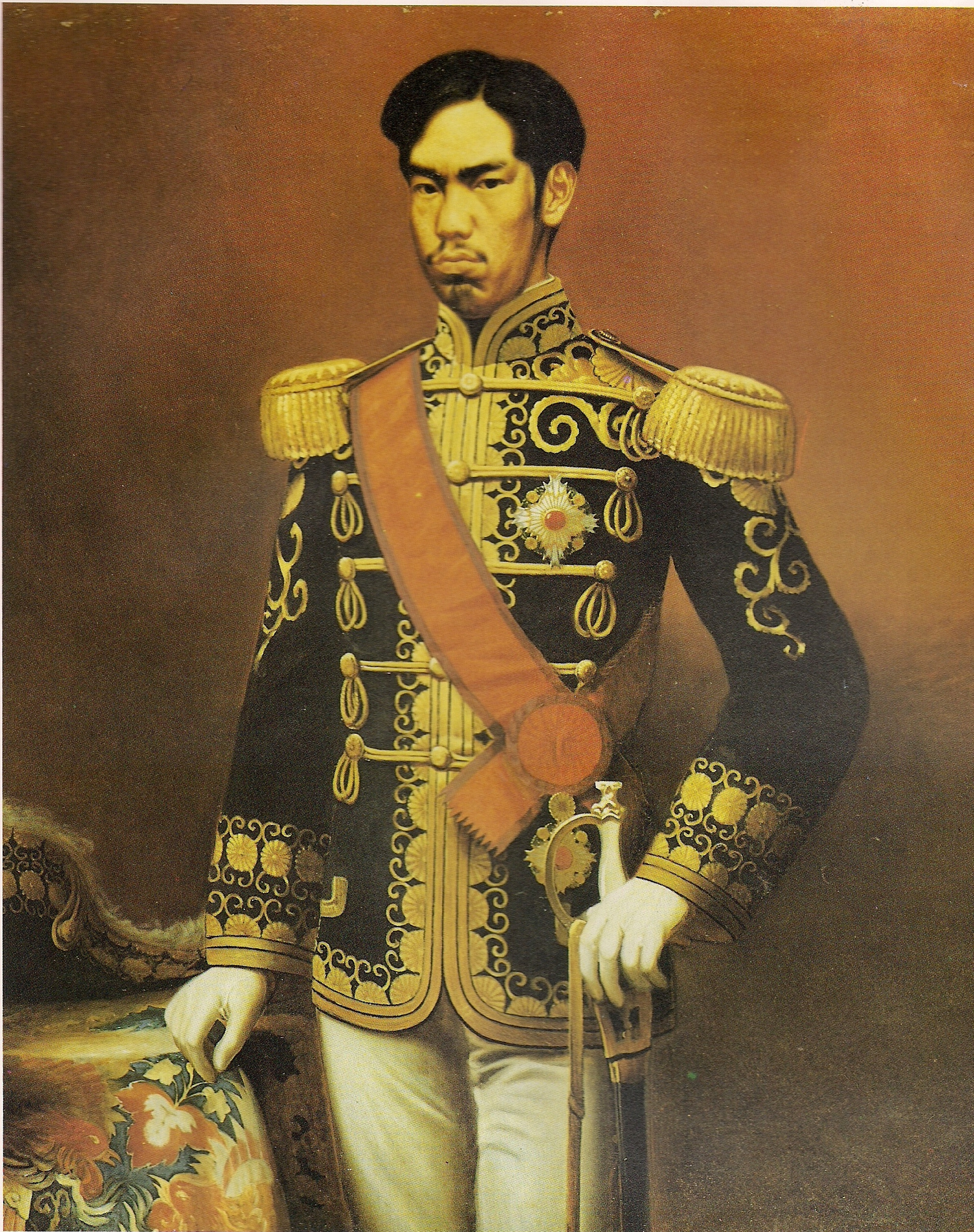 Emperor Meiji by Takahashi Yuichi, Imperial Collection